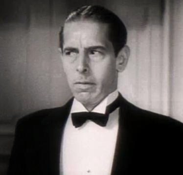 Arthur Hohl in The Kennel Murder Case - trailer (cropped screenshot)